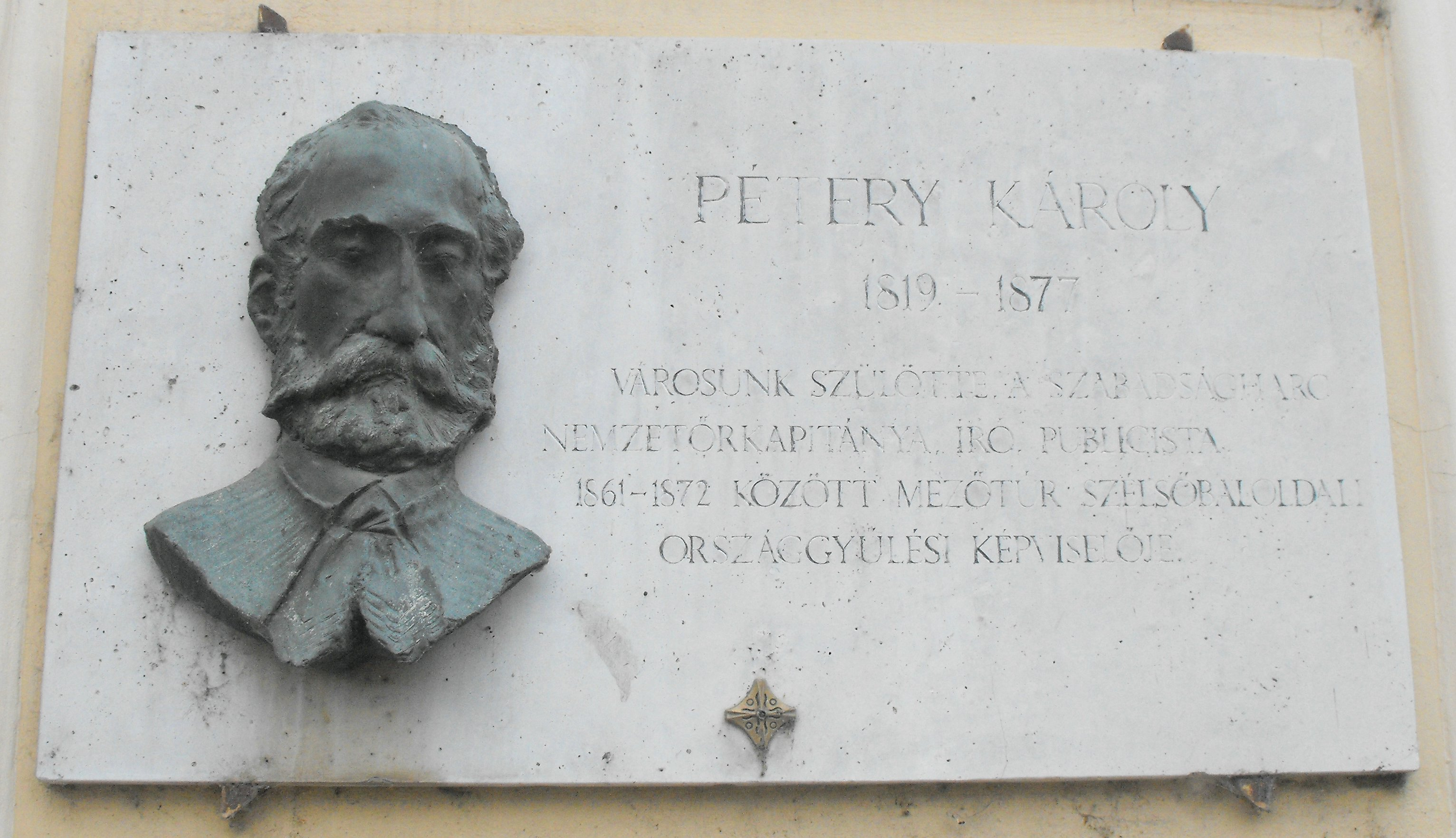 Plaque of Károly Pétery, writer, publicist, MP in Mezőtúr, Hungary.